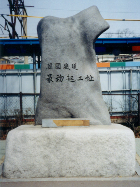 The monument of first break ground of Korean railway (Dowon station, Incheon, South Korea)